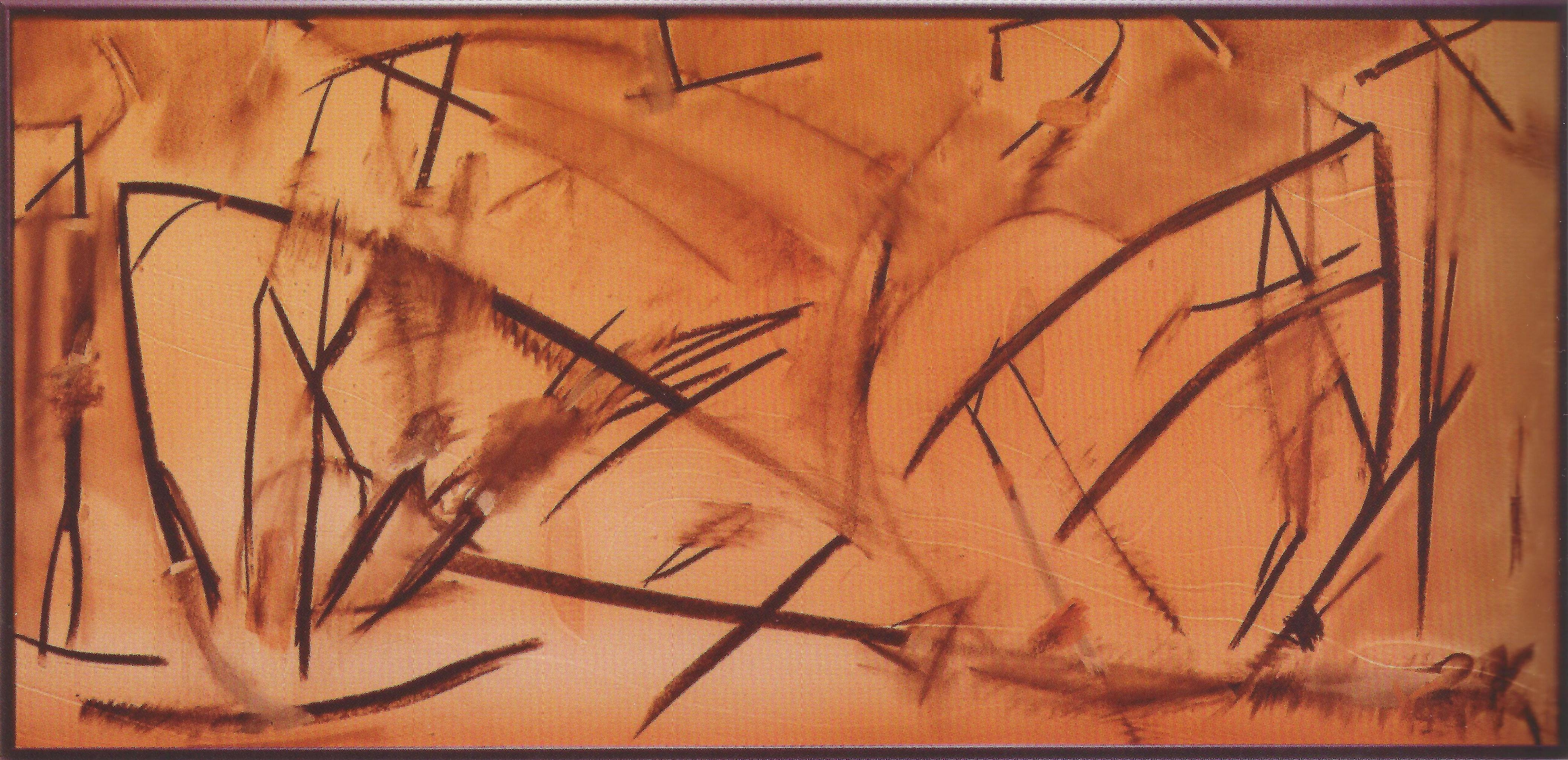 Pythagoras' Lament — by Robert Kehlmann (1992). Mixed media on board, 15.75" x 32.5".